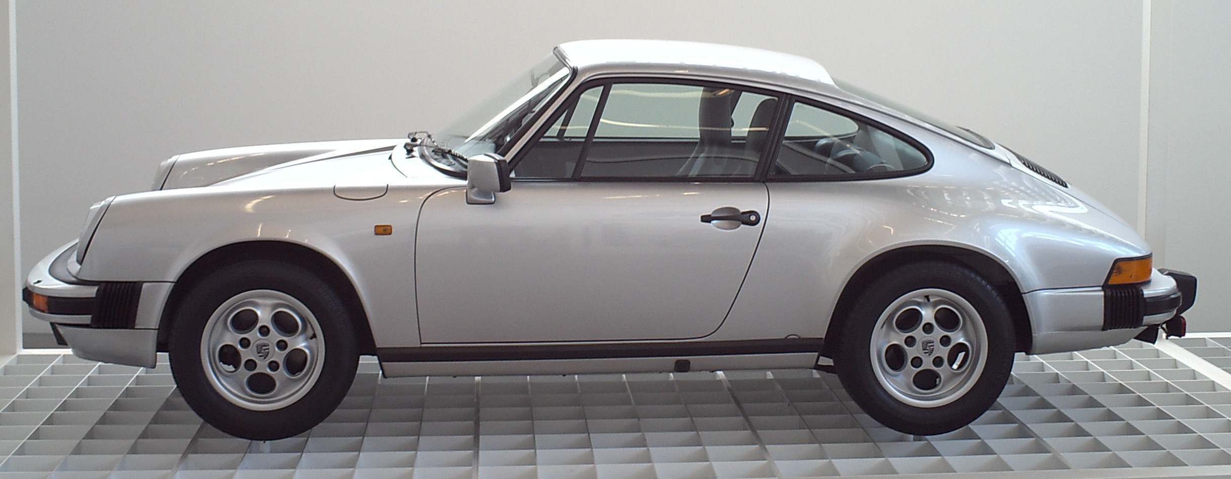 classic Porsche 911, model SC 1986 design: Ferdinand Alexander Porsche (*1935)